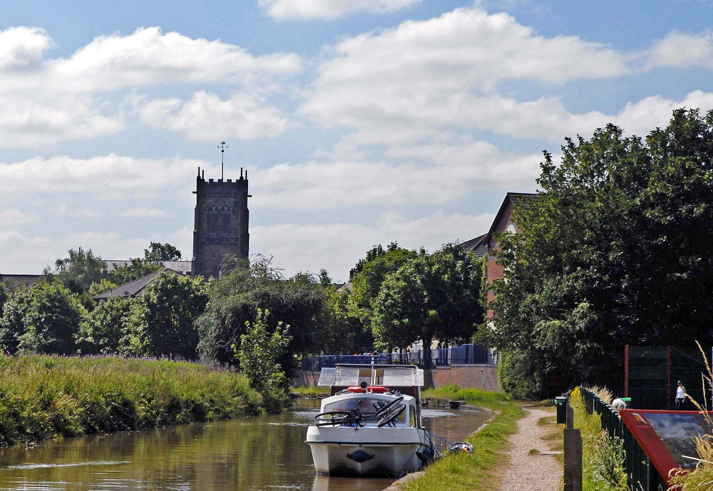 Photograph of the location of the Pepper Street salt works taken in 2006.